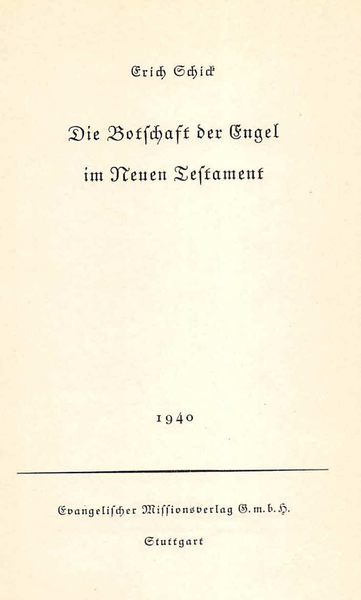 Cover page of Erich Schick's book "Die Botschaft der Engel im Neuen Testament" (1940)